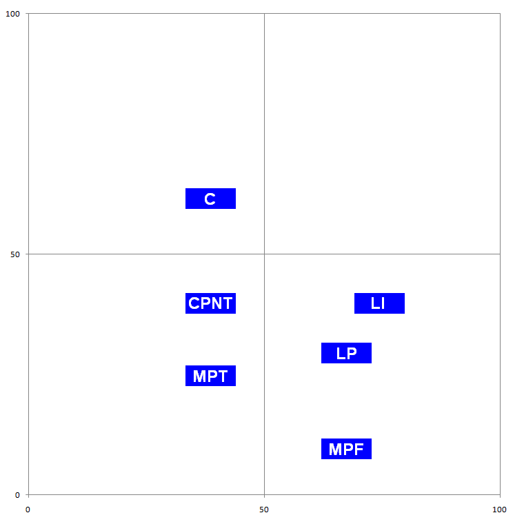 Positions at May 29, 2009 of Libertas Ireland (LI), Mouvement pour la France (MPF), Chasse, Peche, Nature, Traditions (CPNT), Libertas Poland (LP), Partido da Terra (MPT), Ciudadanos-Partido de la Ciudadanía (C) on a Hix-Lord diagram (Europhiles at the top, Eurosceptics at the bottom, Economically left-wing to the left, Economically right-wing to the right). Positions derived from euprofiler.eu. Positions placed manually by eye, so because of this and the limitations of the Microsoft Paint software, it is acknowledged that the map is not precise to the level of +/- one pixel. Any Wikipedian/Commons user who may be able to do better is strongly urged by myself to create a better version.